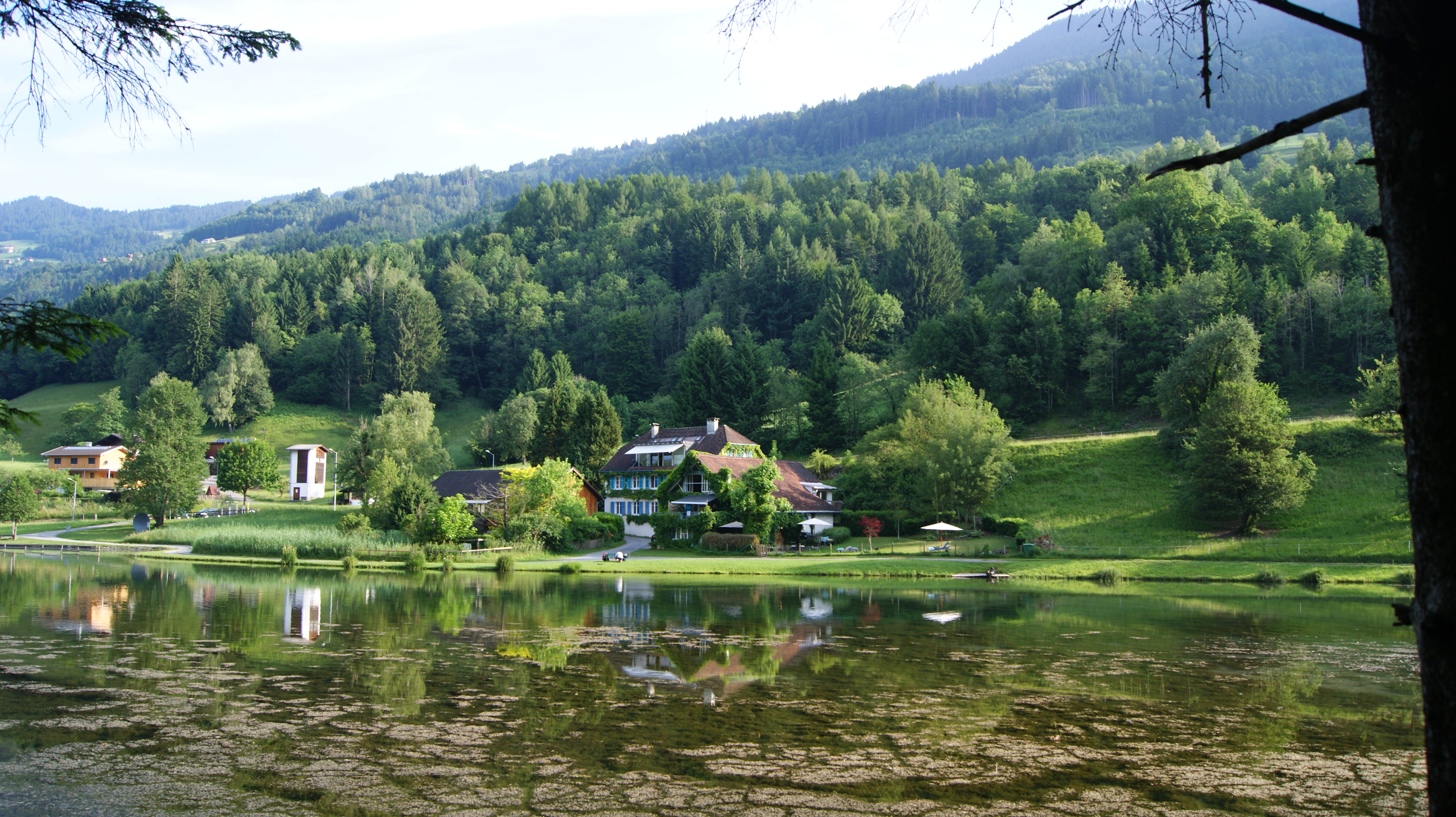 Inn "Bad Schnifis", formerly health spa, inn to the hunting lodge at Jagdbergstraße Nr.37 in Schnifis, Vorarlberg, Austria. View over the Fallersee.